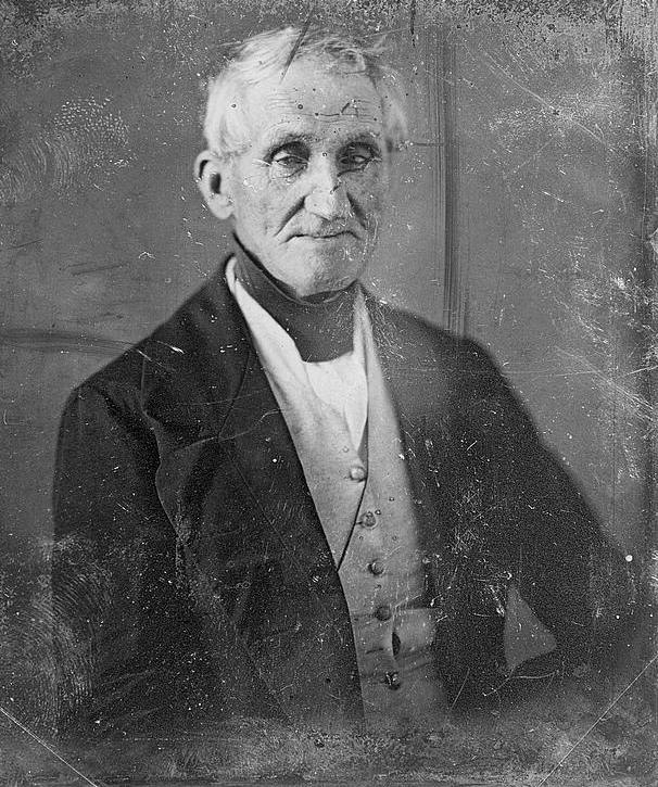 General Hugh Brady (1768-1851), United States Army, 1792-95, 1799-c. 1801, 1812-1851.